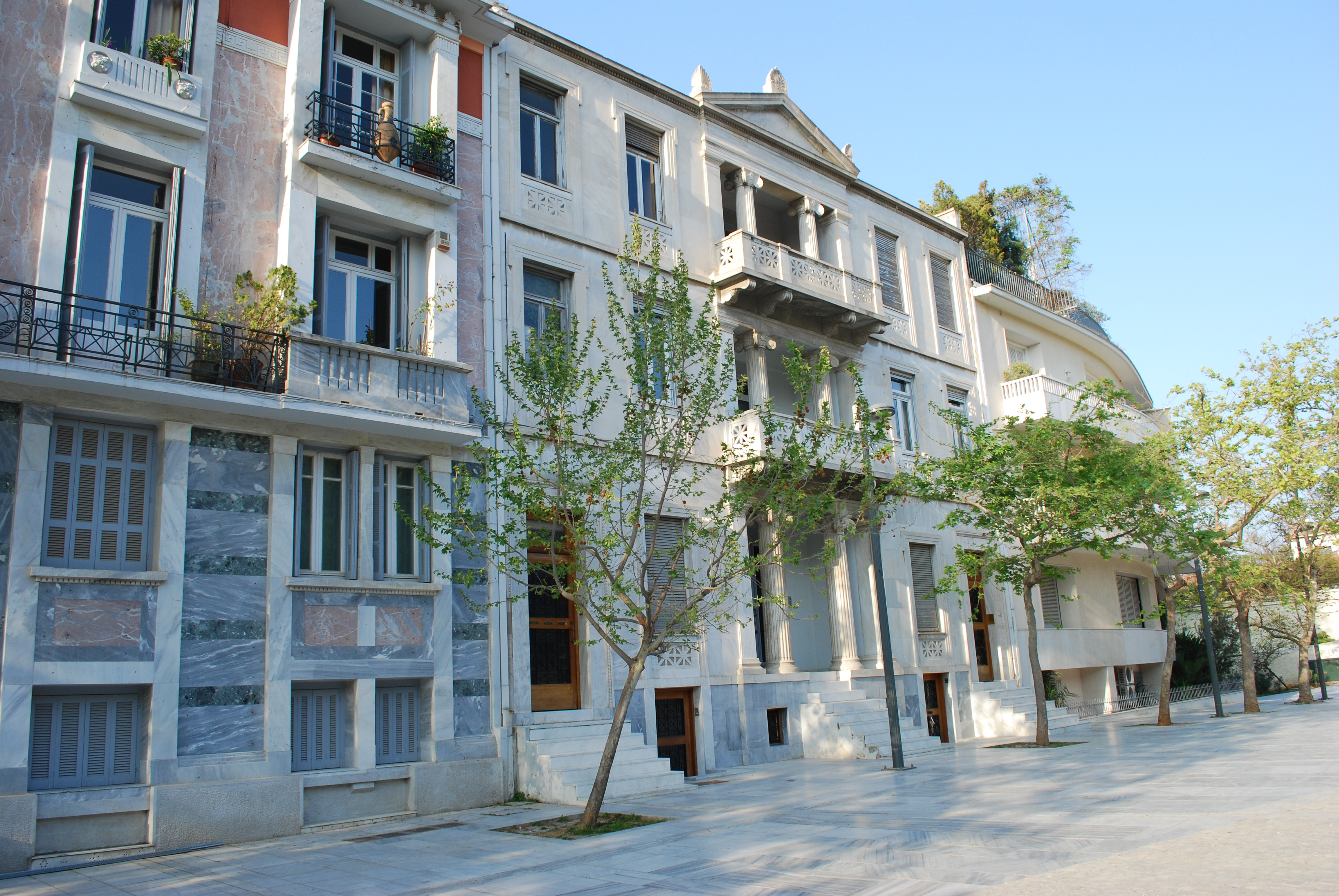 Plaka (Athens) : Odos Dionysiou Areopagitou / Dionysius the Areopagite Street.